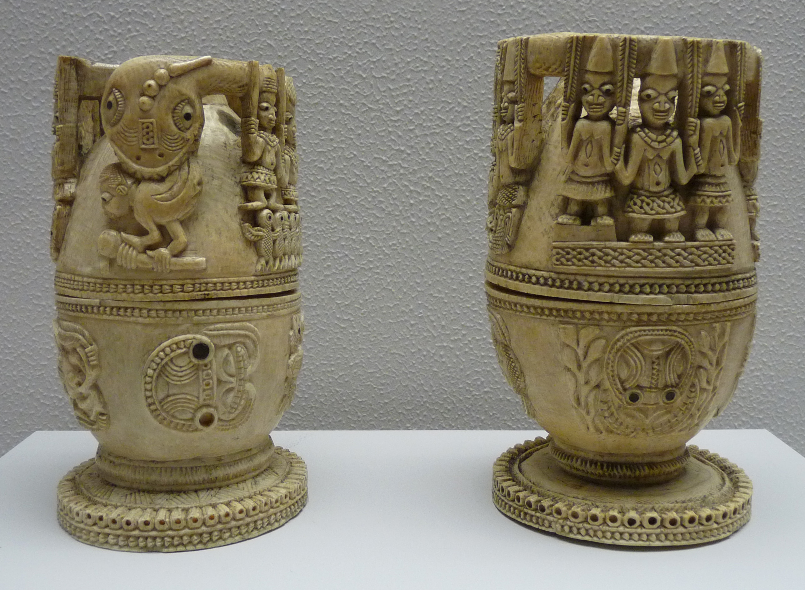 Two ivory lidded bowls with lid from the 18th century, OWO-Yoruba, Nigera. Africa section of the Ethnological Museum Berlin.